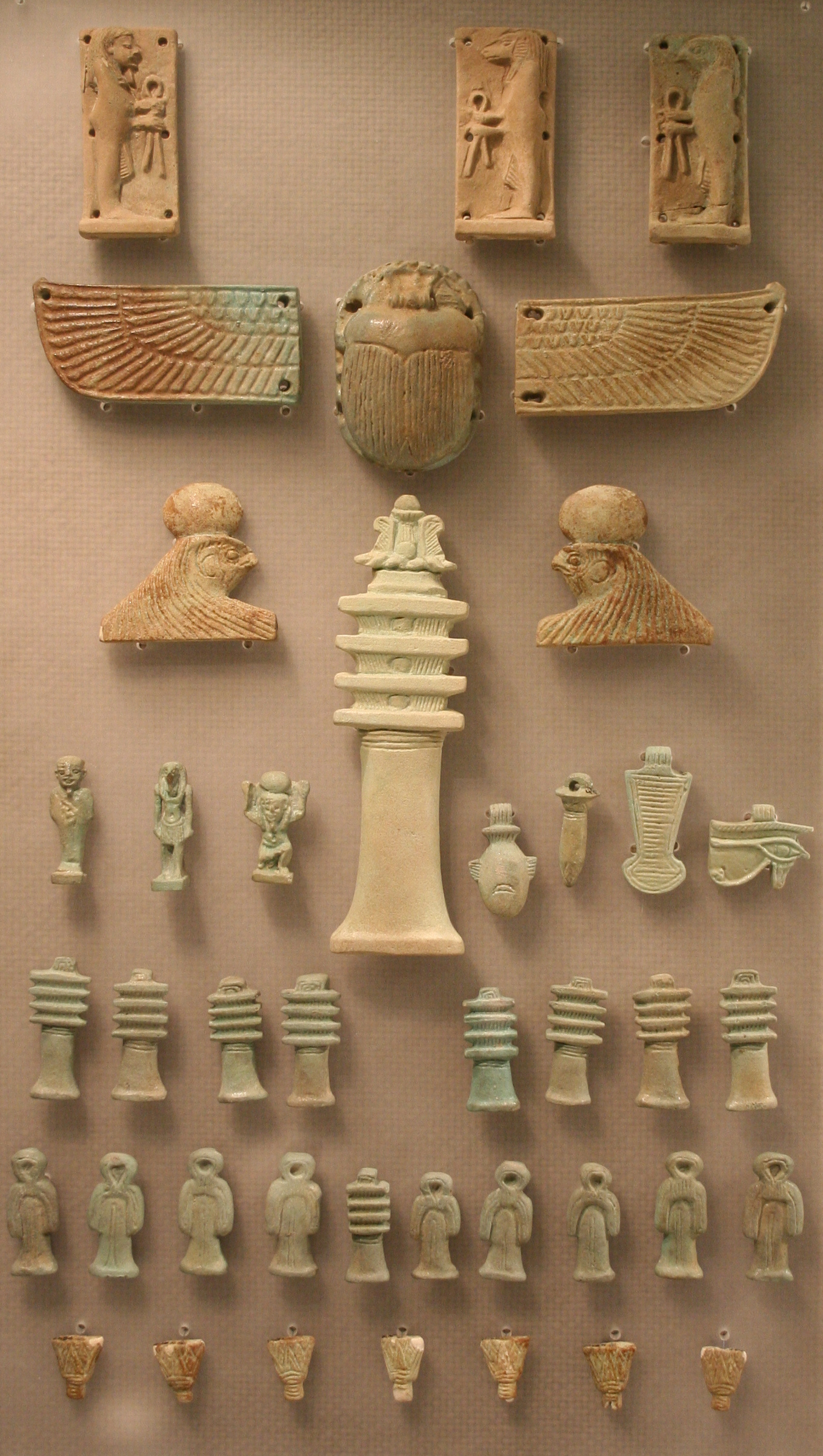 Amulets